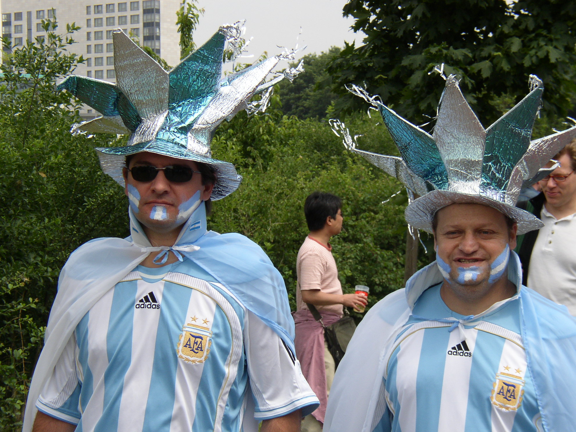 Fans of Argentina before the match of ARG vs. SCG of the FIFA World Cup Germany 2006, in Gelsenkirchen